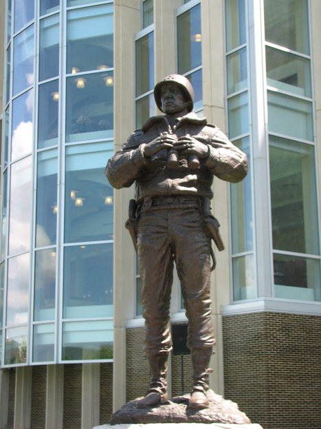 Statue of General George S. Patton, Jr. at US Military Academy at West Point, NY, in temporary location behind new library, Jefferson Hall.